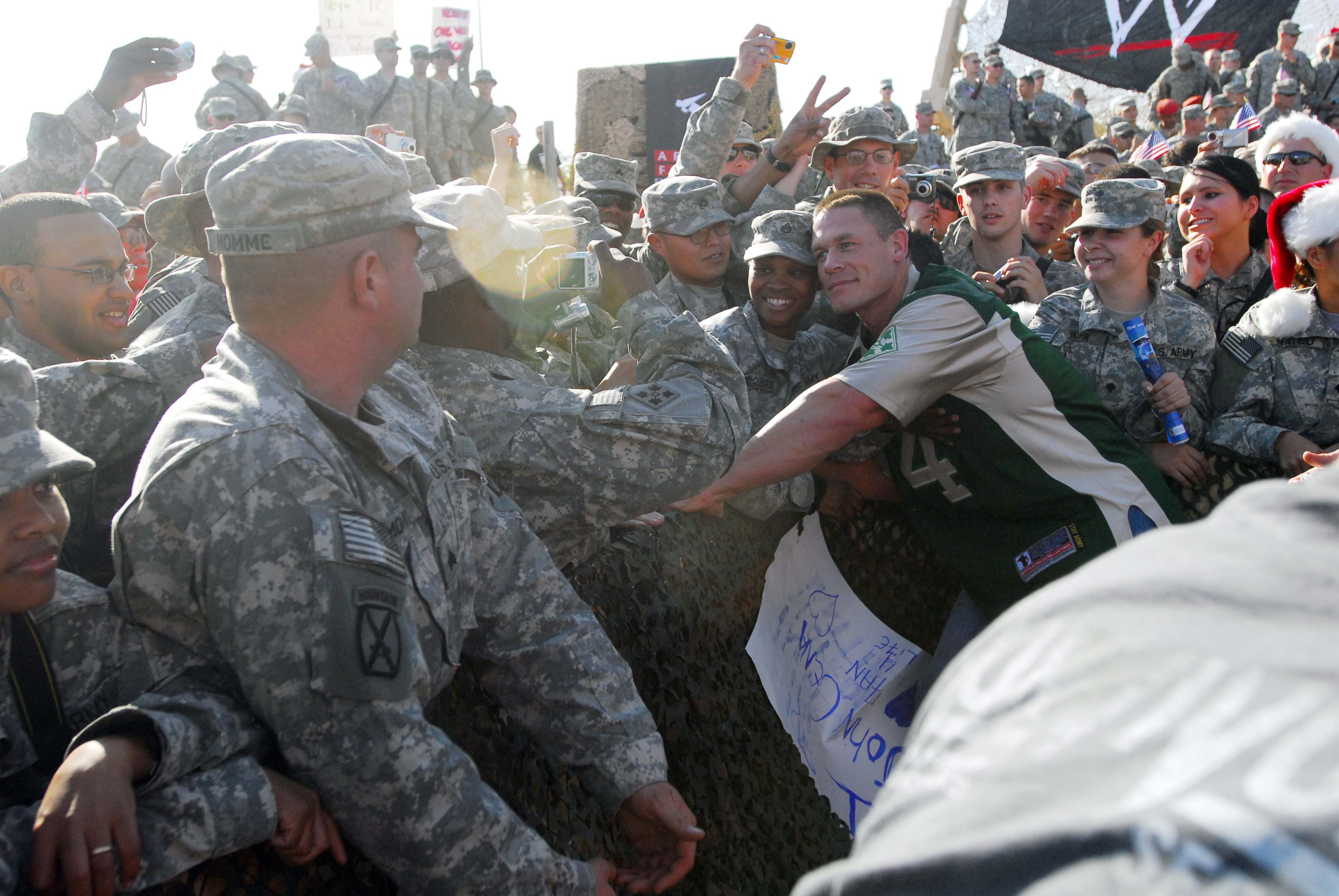 World Wrestling Entertainment Superstar John Cena poses with troops attending the WWE's Tribute to the Troops main event on Camp Victory, Dec. 5.